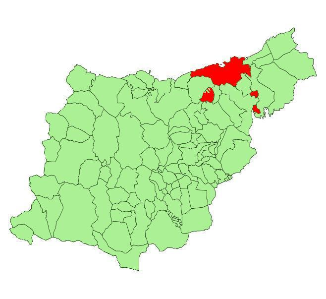 Donostia-San Sebastian municipality in the province of Guipuzcoa.